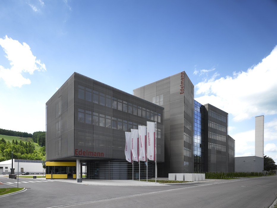 Edelmann Service Centrum